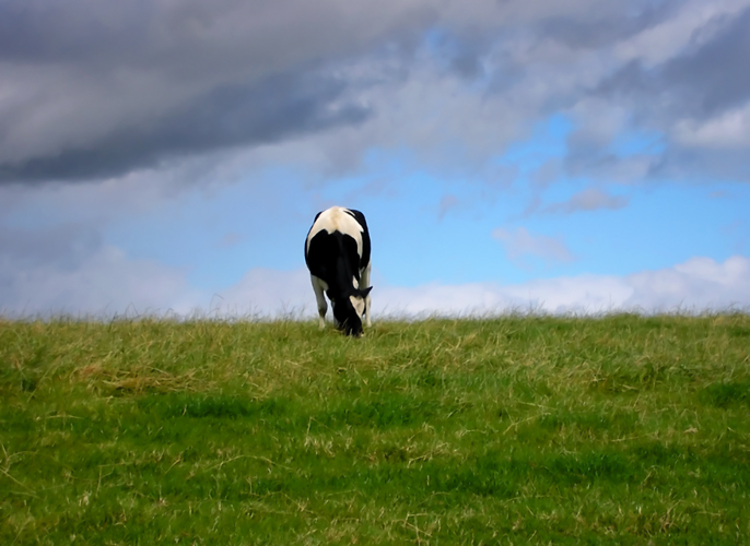 Cow, Scotland